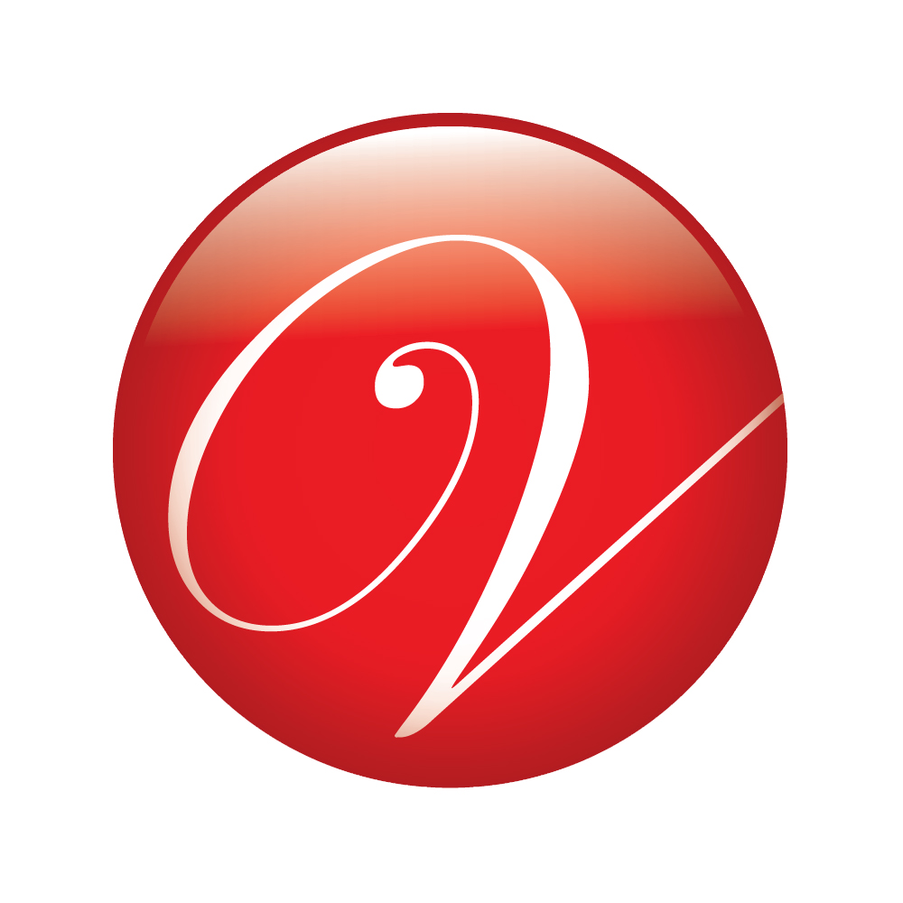 SVF Corproate Logo